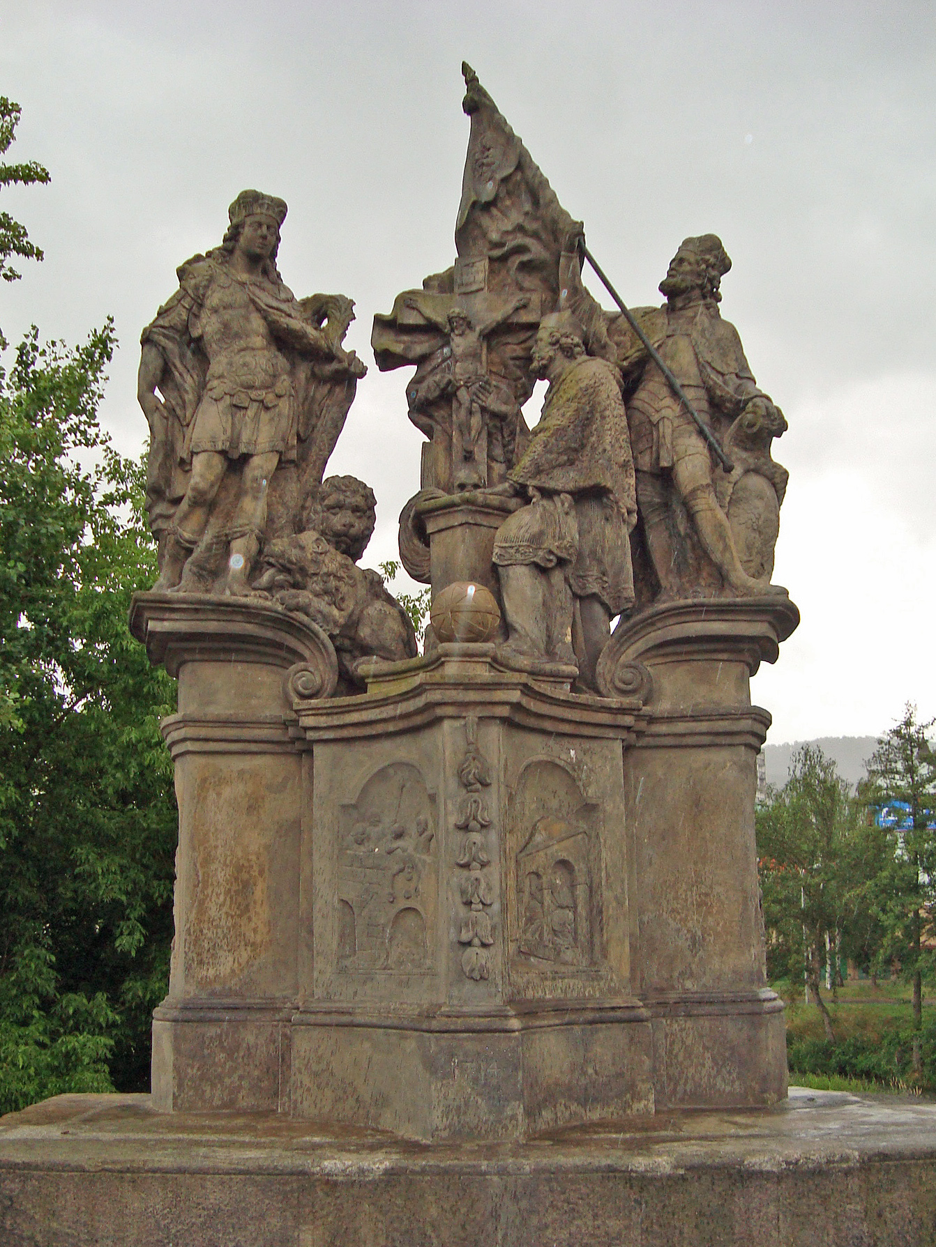 Sculptural group of patron saints of Bohemia SS Wenceslaus, John Nepomucene and Vitus on the Staroměstský most (Staré Město Bridge) over the Ploučnice River in Děčín, by Michal Jan Josef Brokoff (1714).